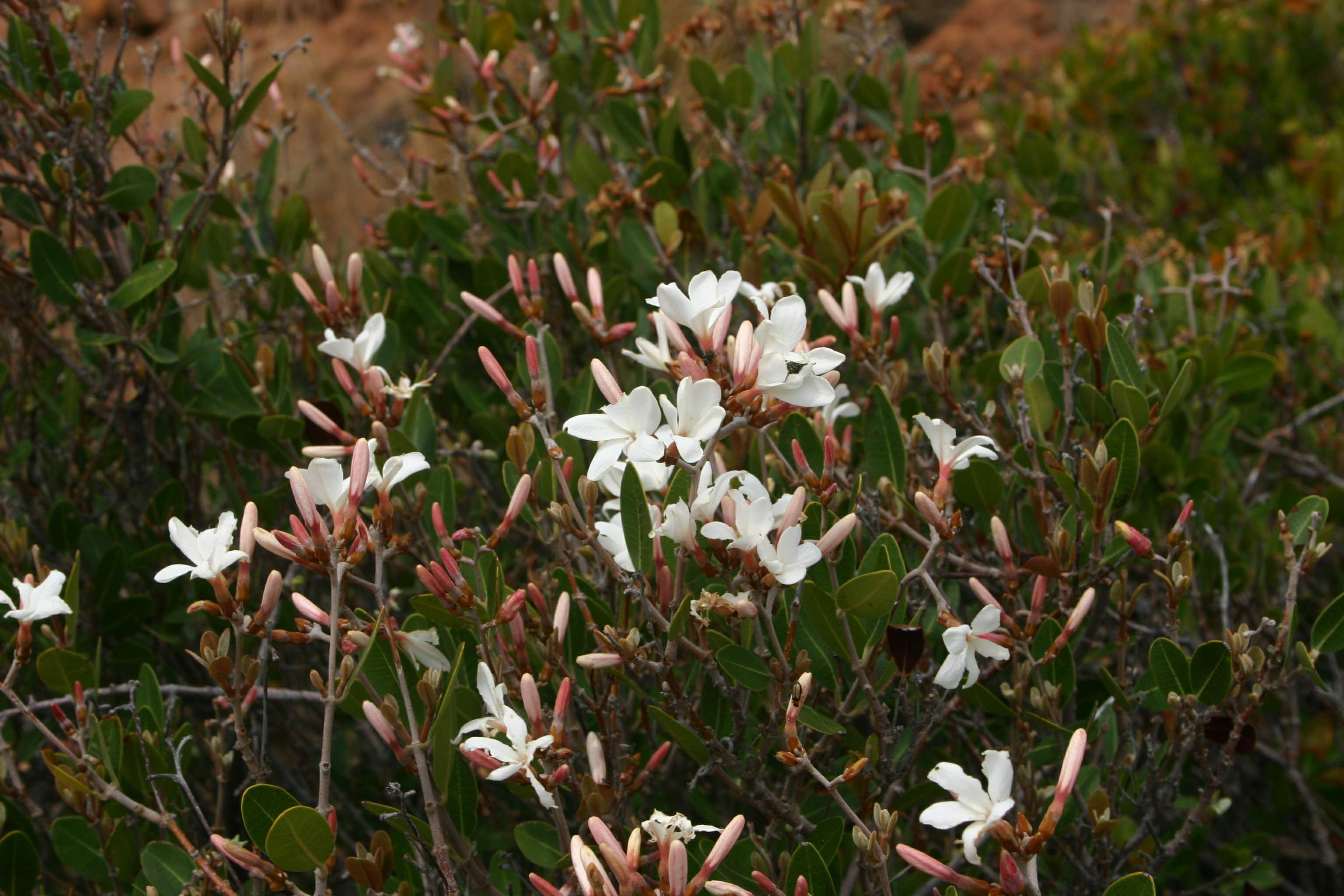 Landolphia capensis Oliv., Magaliesberg, South Africa